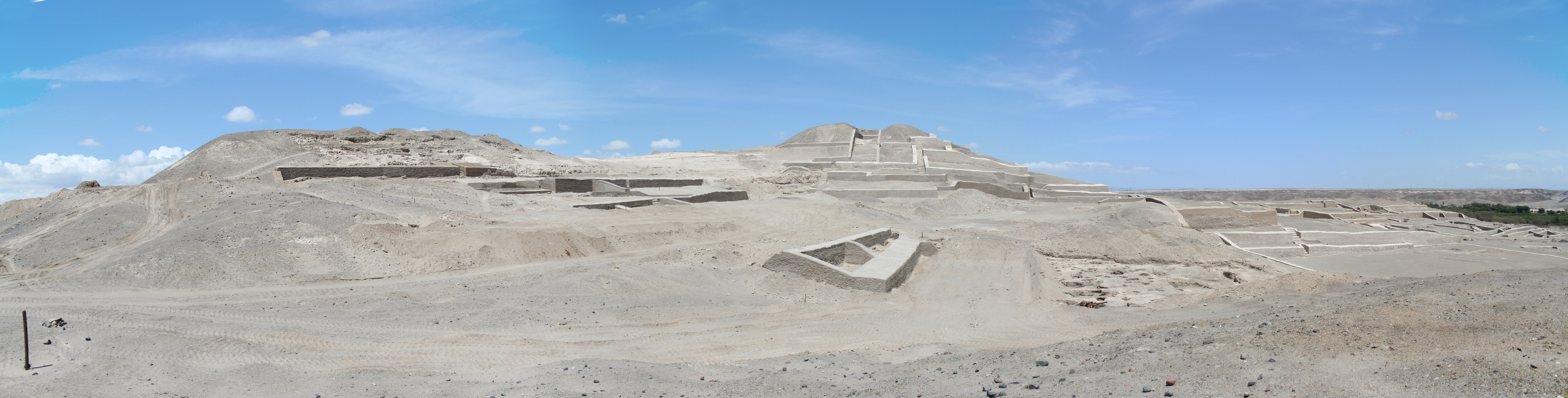 Cahuachi / Nazca Valley, Peru - Adobe Pyramids